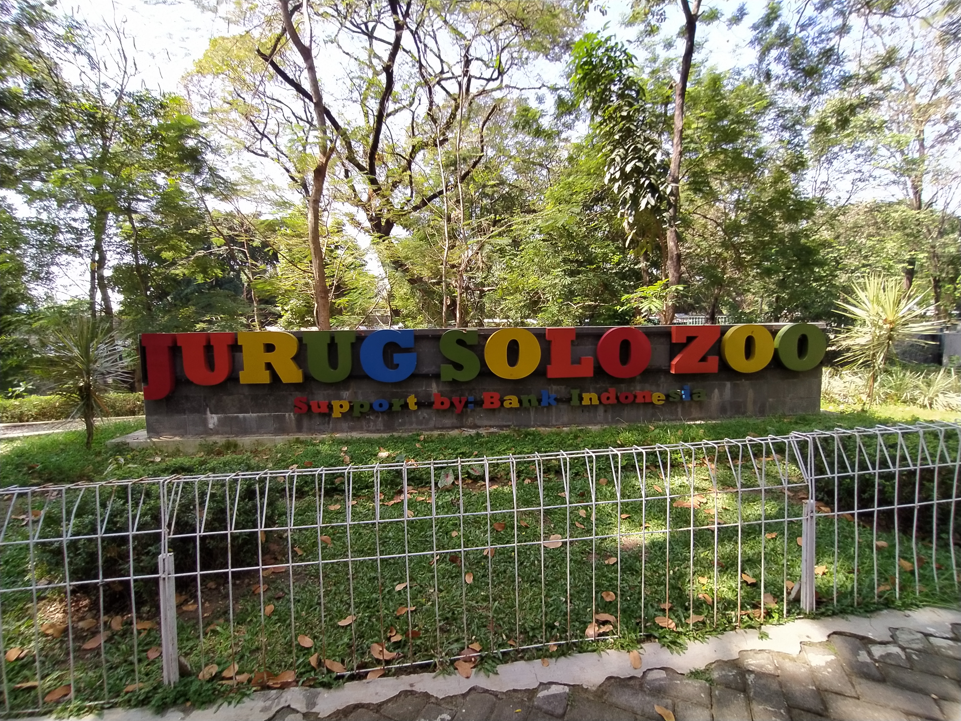 Jawa: Jurug zoo in central Java.